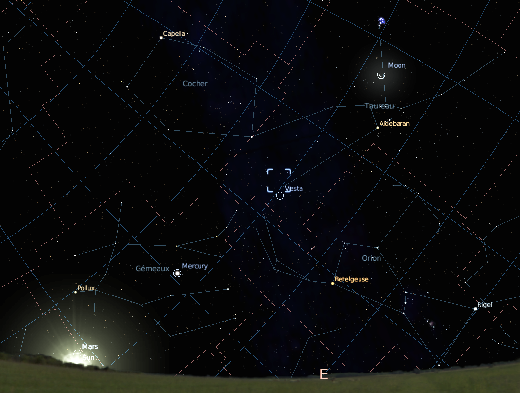 Sky at daybreak on 4 july 1054 where the famous supernova of 1054 was first sighted in China